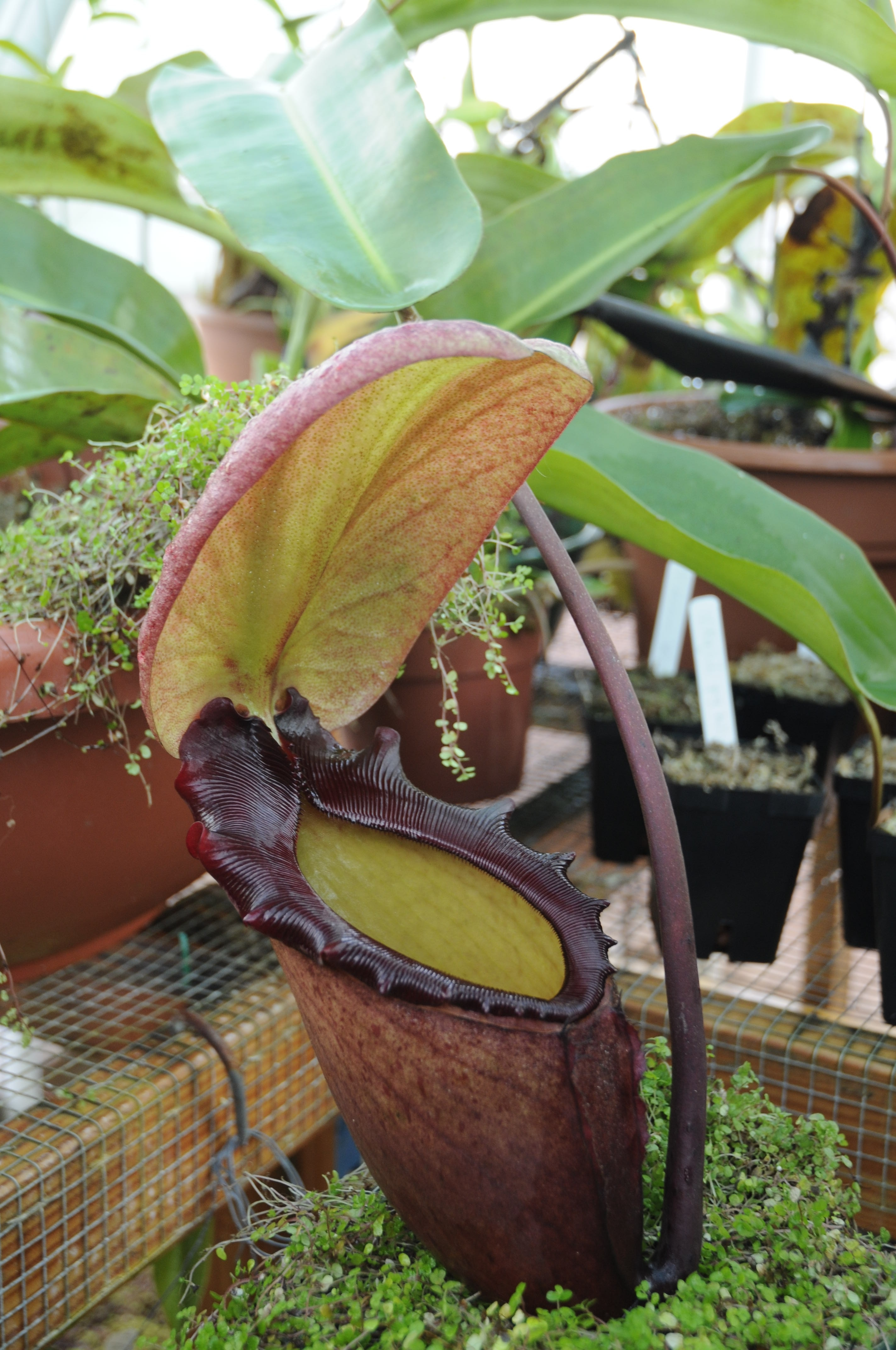 Large cultivated Nepenthes rajah